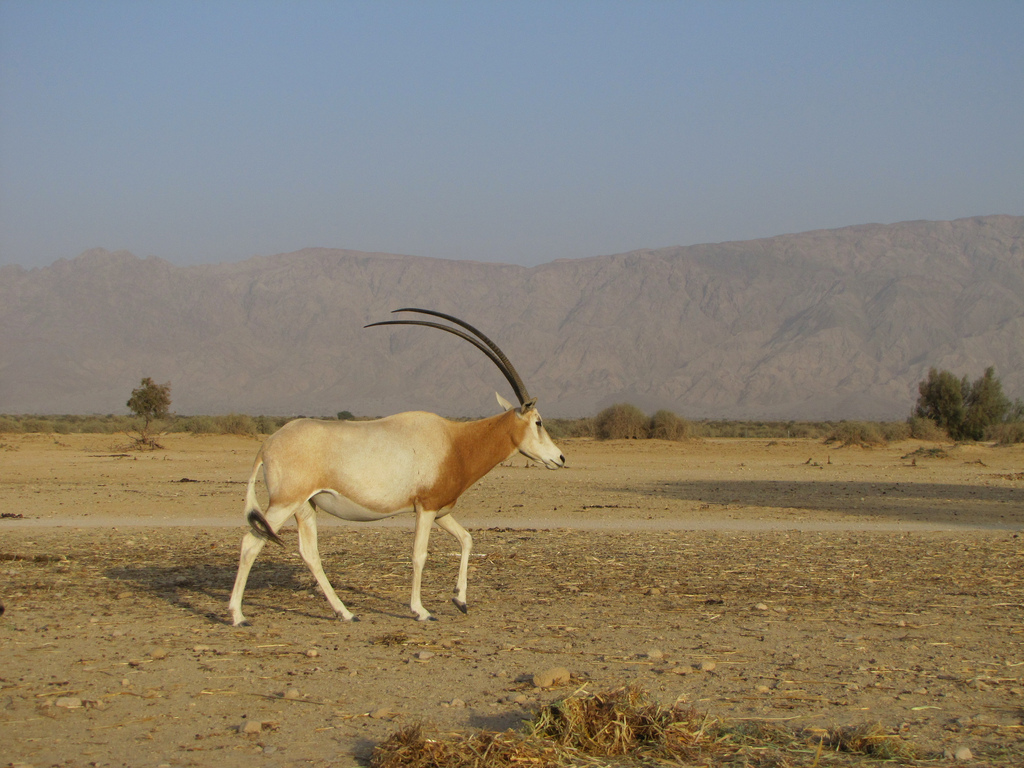 The Scimitar Oryx or Scimitar-Horned Oryx (Oryx dammah) in Yotveta Hai-Bar, Wildlife and Plants of Israel